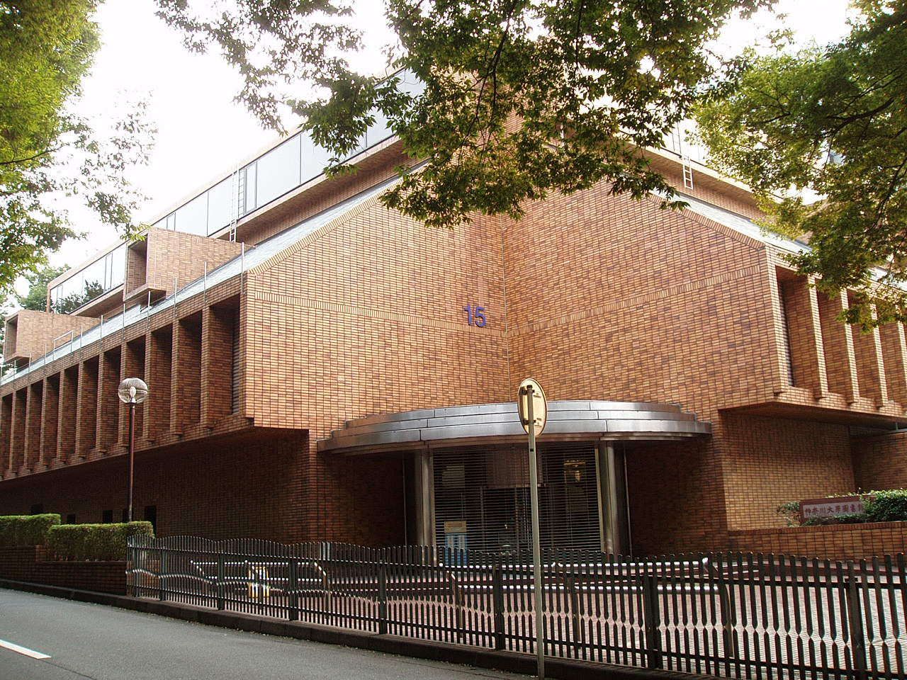 The Library at Yokohama Campus, Kanagawa University. Located in Rokkakubashi, Kanagawa-ku, Yokohama, Japan.